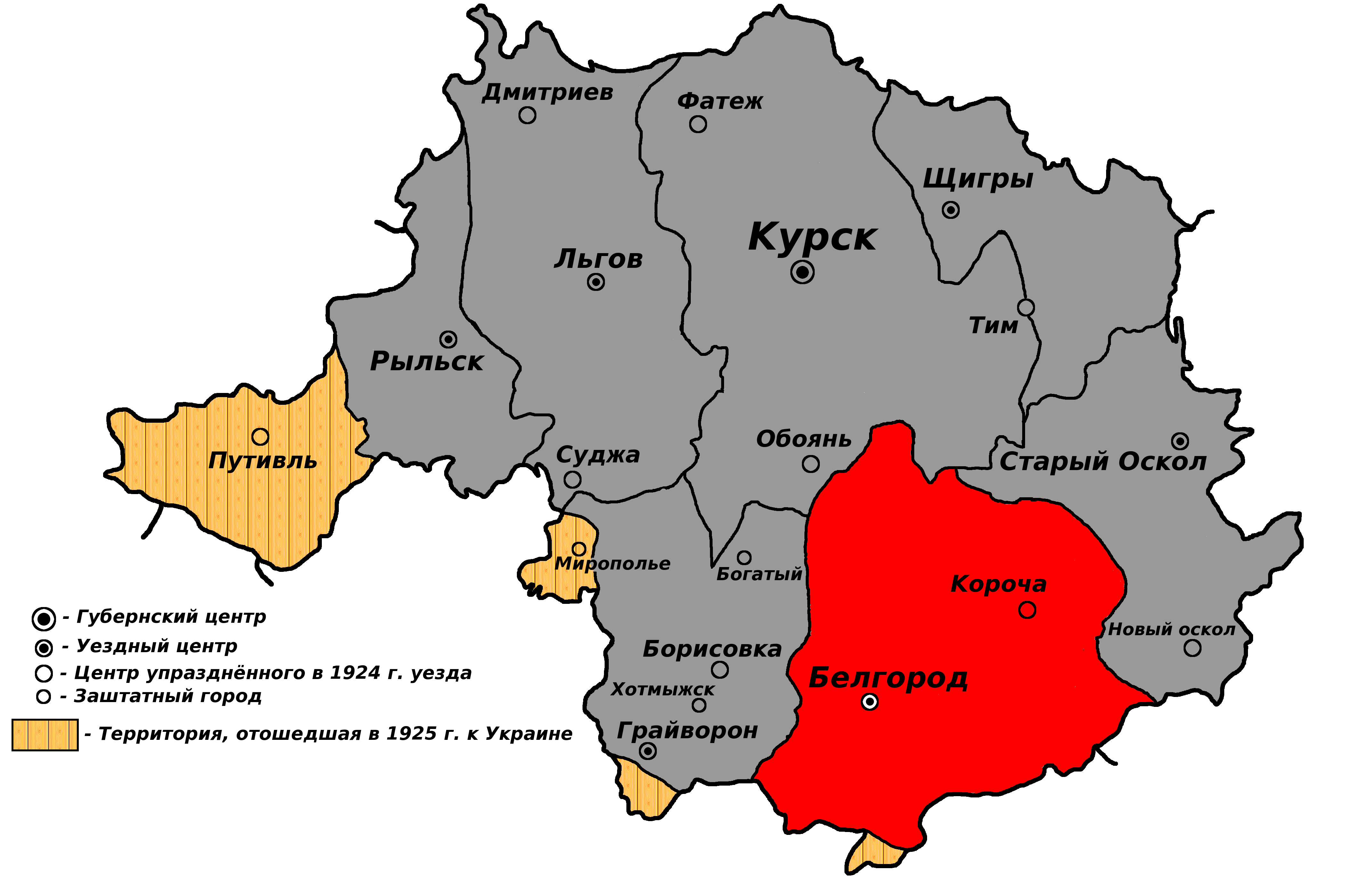 Kursk gubernia (RSFSR, 1924-1928), Belgorodsky_uyezd